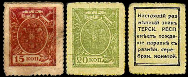 Stamp money of Terek Republik, 1918